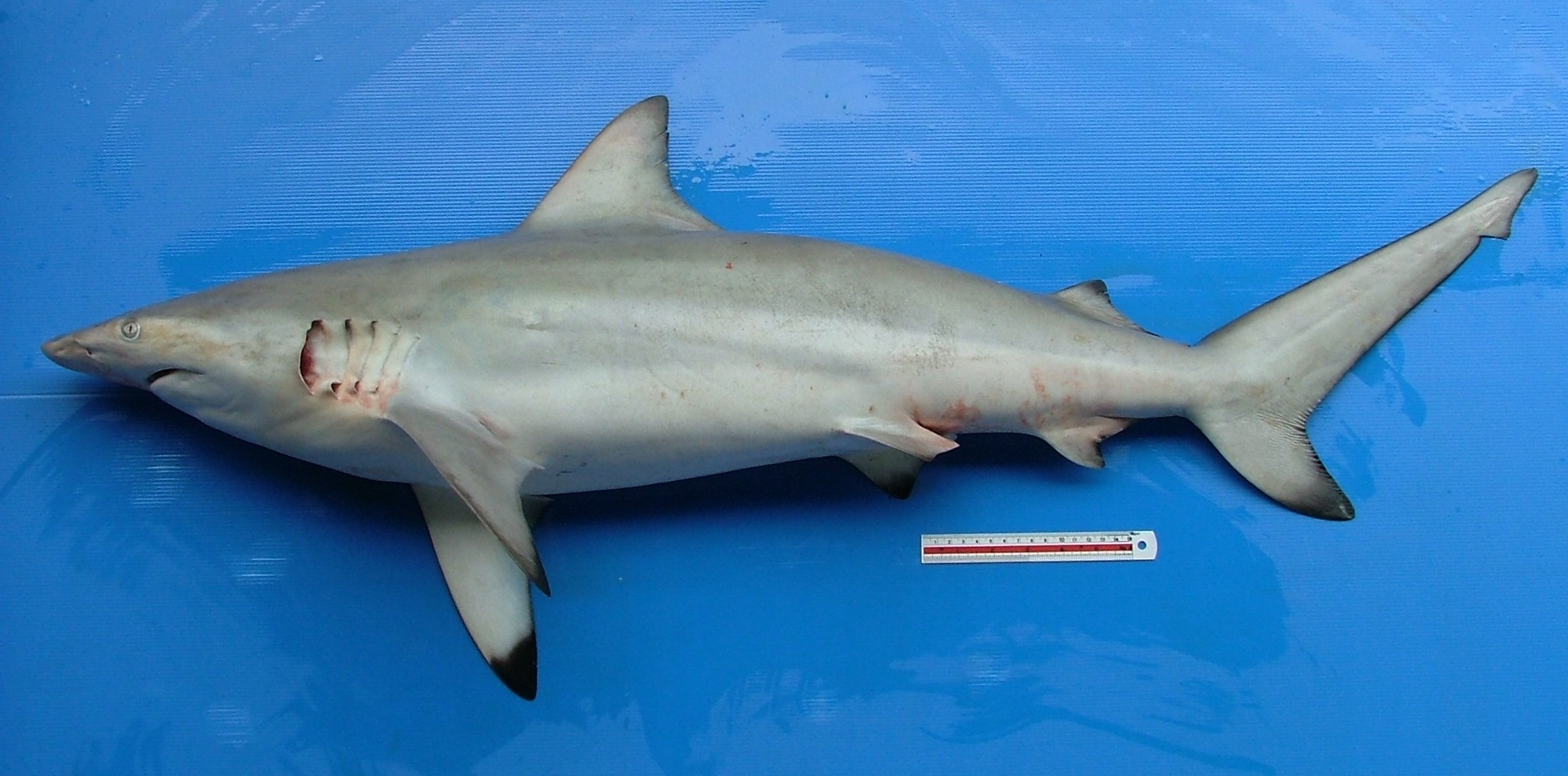 Graceful shark (Carcharhinus amblyrhynchoides) at Phuket Fishing Port, Thailand